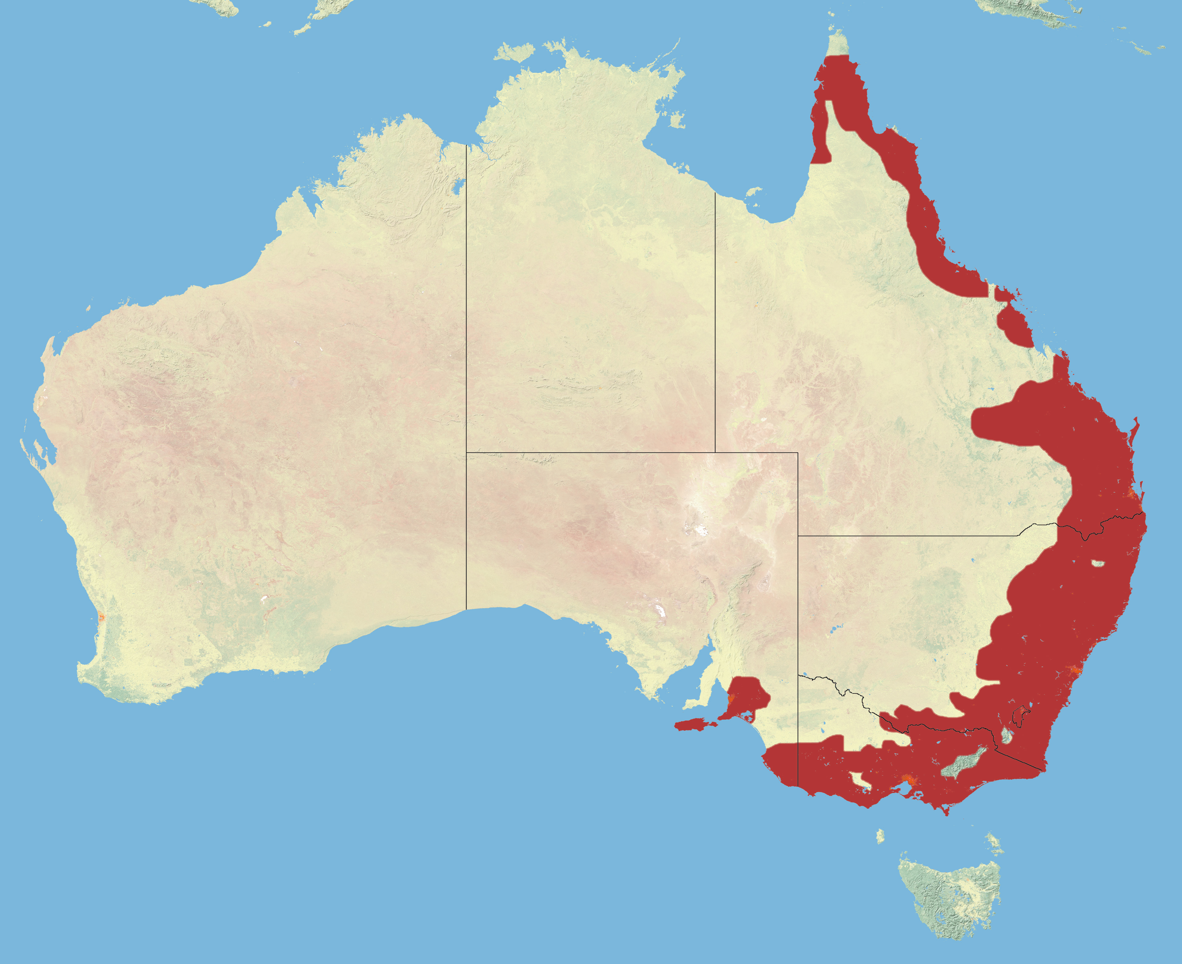 The Distribution of the Red-browed Finch - As per .au